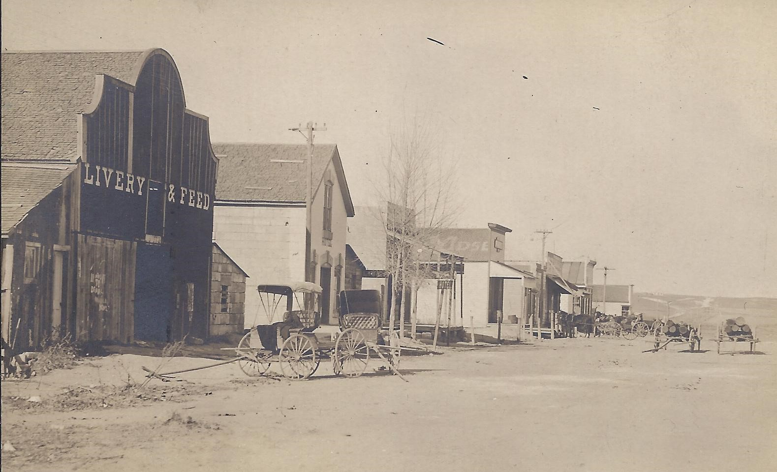 Street scene in Webster, Kansas from estimated early 1900s. Town no longer exists.